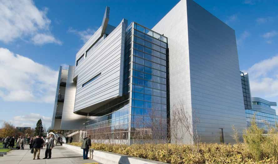 Wayne L. Morse United States Courthouse